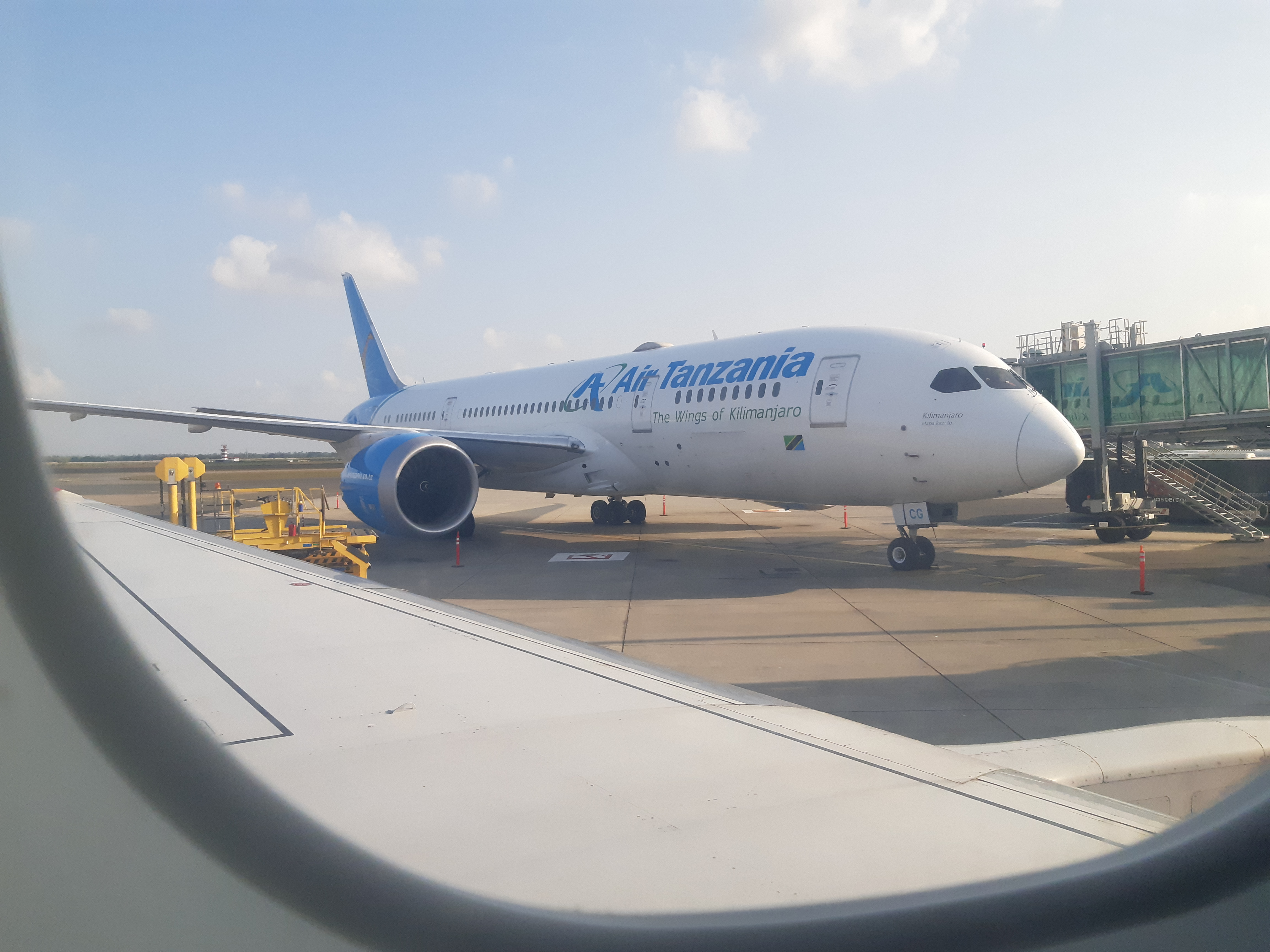 This is a Boeing belonging to Air Tanzania